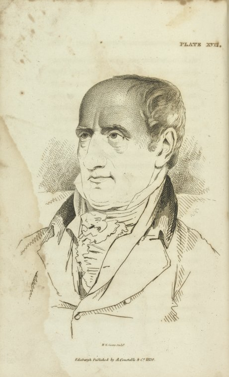 Portrait of William Godwin (1756–1836), English writer. From Illustrations of Phrenology (1820) by Sir George Steuart Mackenzie.